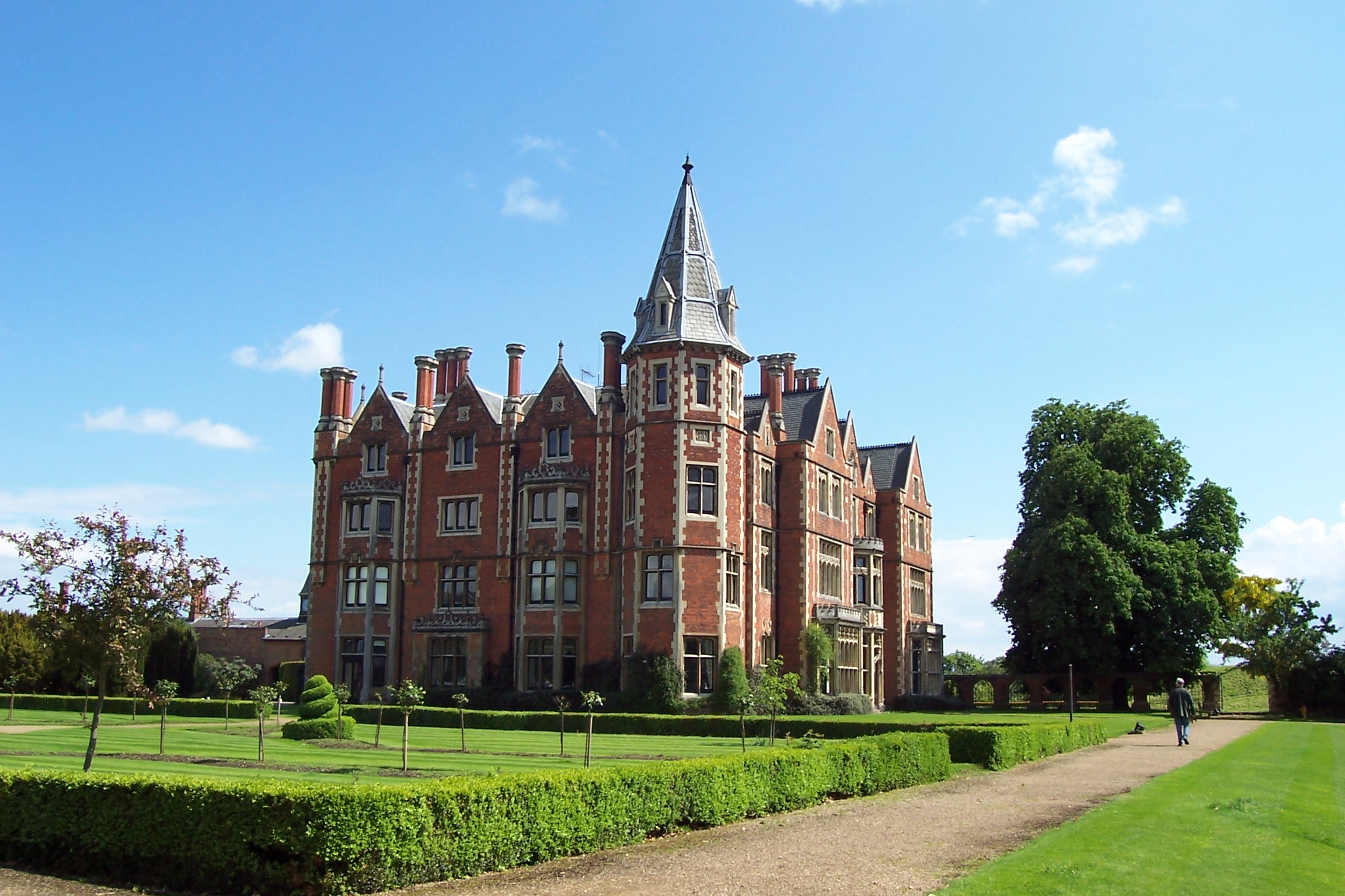 Taplow Court, Taplow, Buckinghamshire, UK - from north